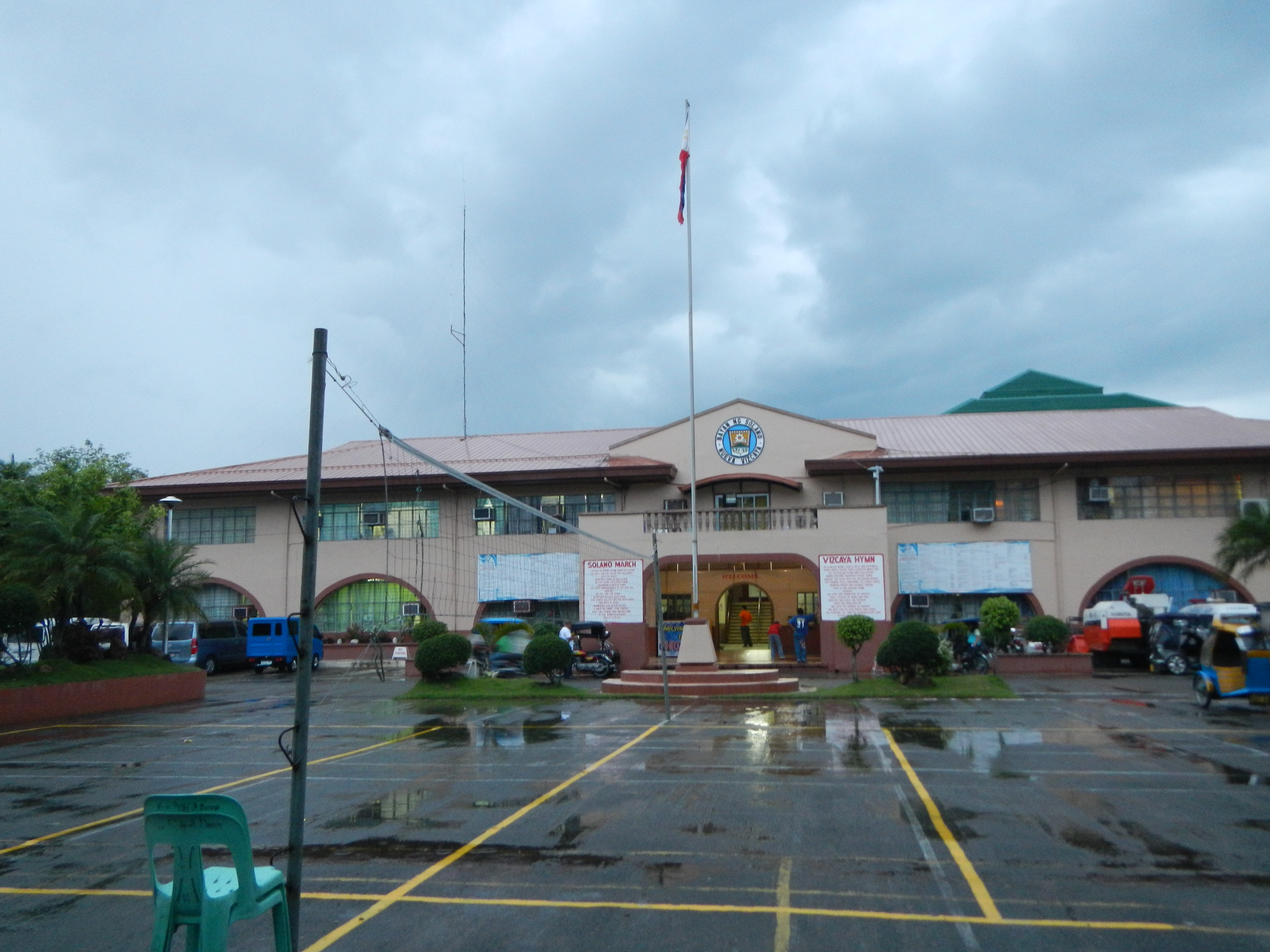 Upload Wizard photos of Maharlika National Highway[1] The Municipal Hall of Solano, Nueva Vizcaya 2 -storey public building Coordinates: 16°31'22"N 121°11'34"E - Solano, Nueva Vizcaya[2] - the park, the Town Hall, the Centro, bus stop, downtown, commercial centers - Tomas Dacayo Community Center, Covered Court, Breads N Bites, Savemore Supermarket, Paz Manzano Zuraek building, Agribank, RBS, [3] Coordinates: 16°31'40"N 121°10'52"E.